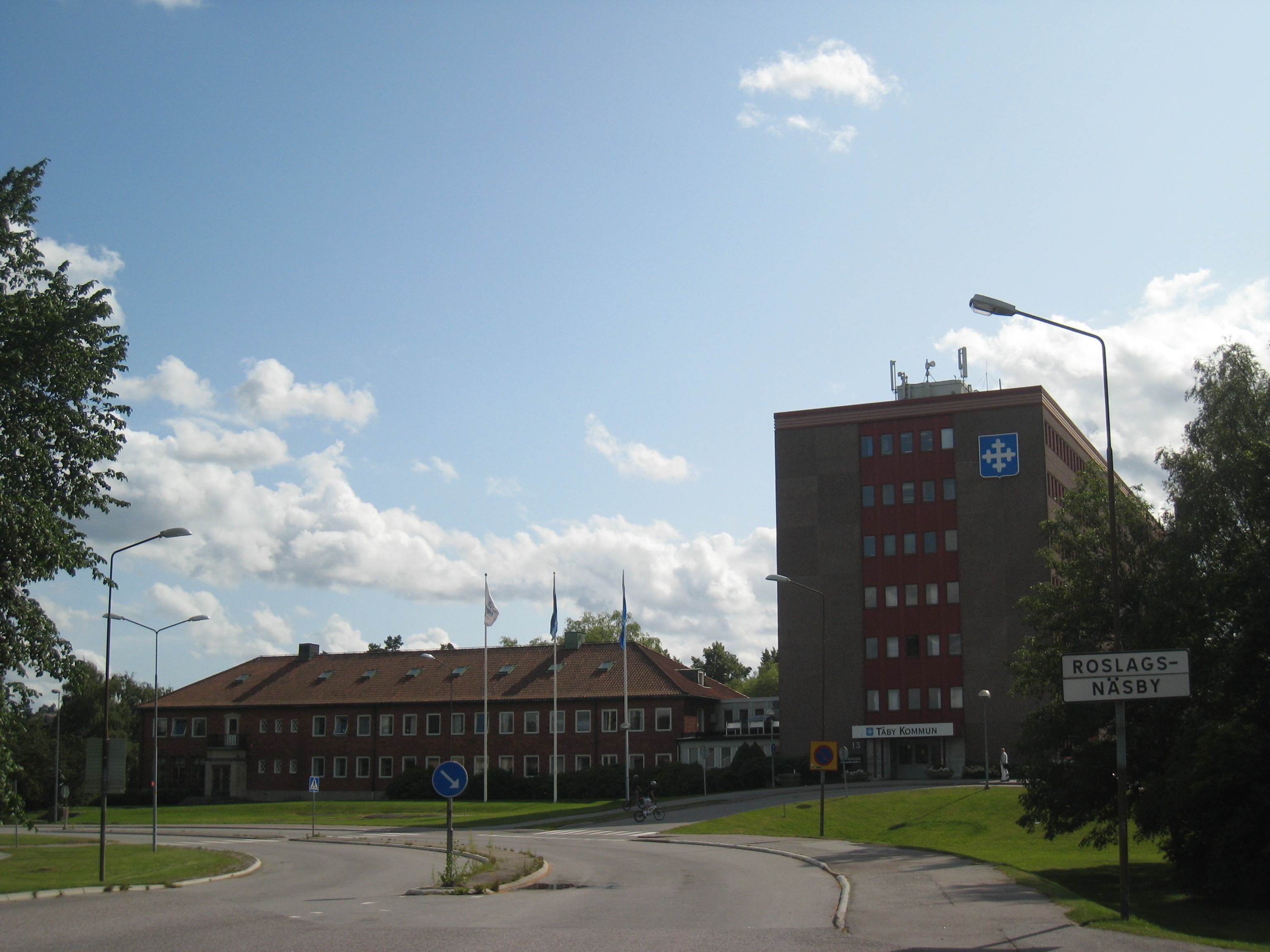 Täby city hall at Roslags-Näsby, Sweden